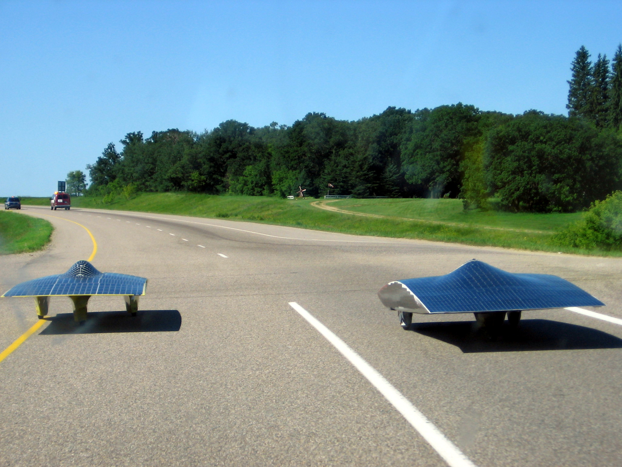 This image was taken soon after the vehicles left Winnipeg heading west toward Calgary, both cities in Canada. The Michigan vehicle, Momentum, is on the left, cruising next to the Minnesota vehicle, Borealis III, on the right along the Royal Canadian Highway 1 at a steady 65 MPH. The view is from the Michigan team's chase vehicle, which followed the solar vehicle throughout the race.